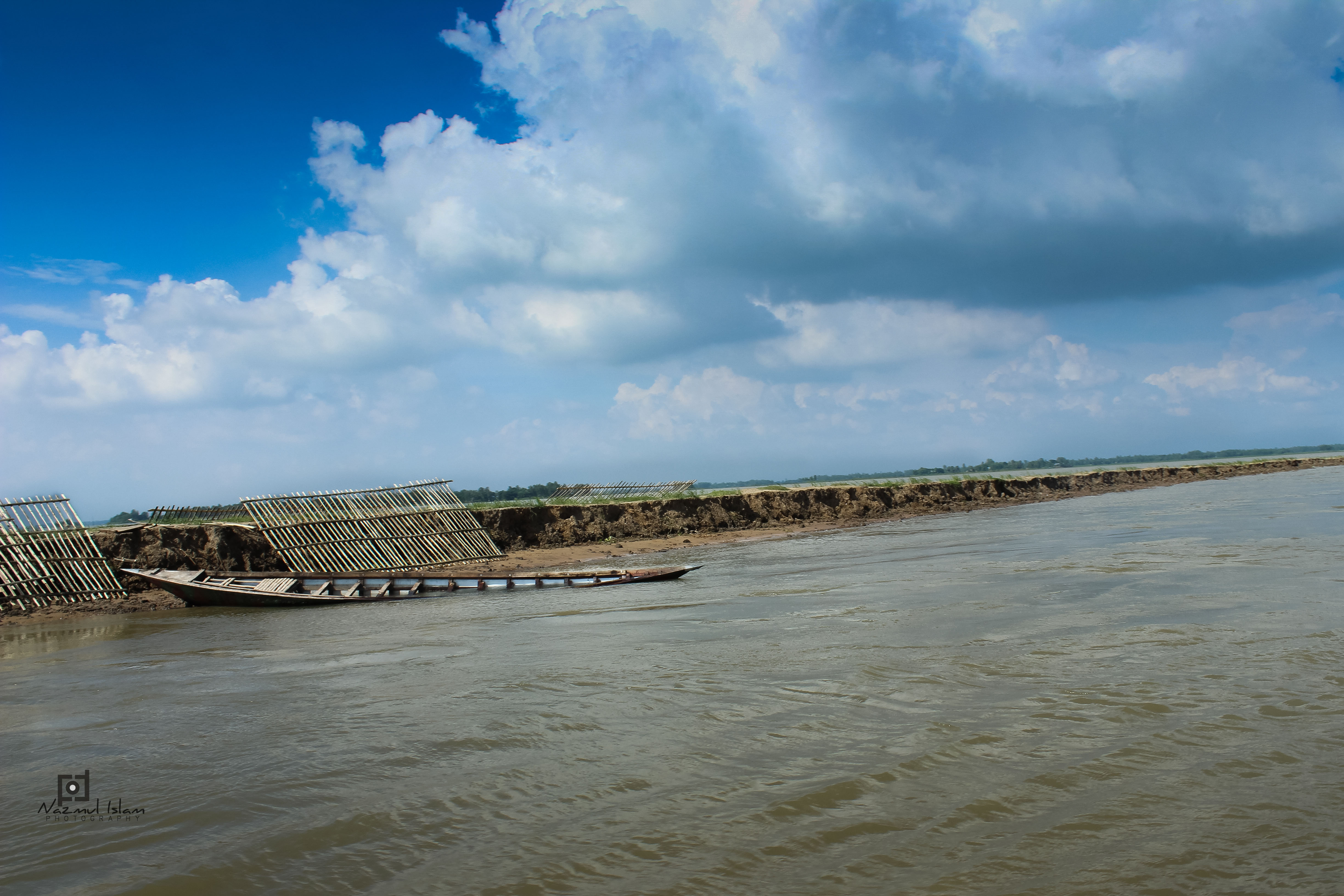 Chalan Beel, Natore